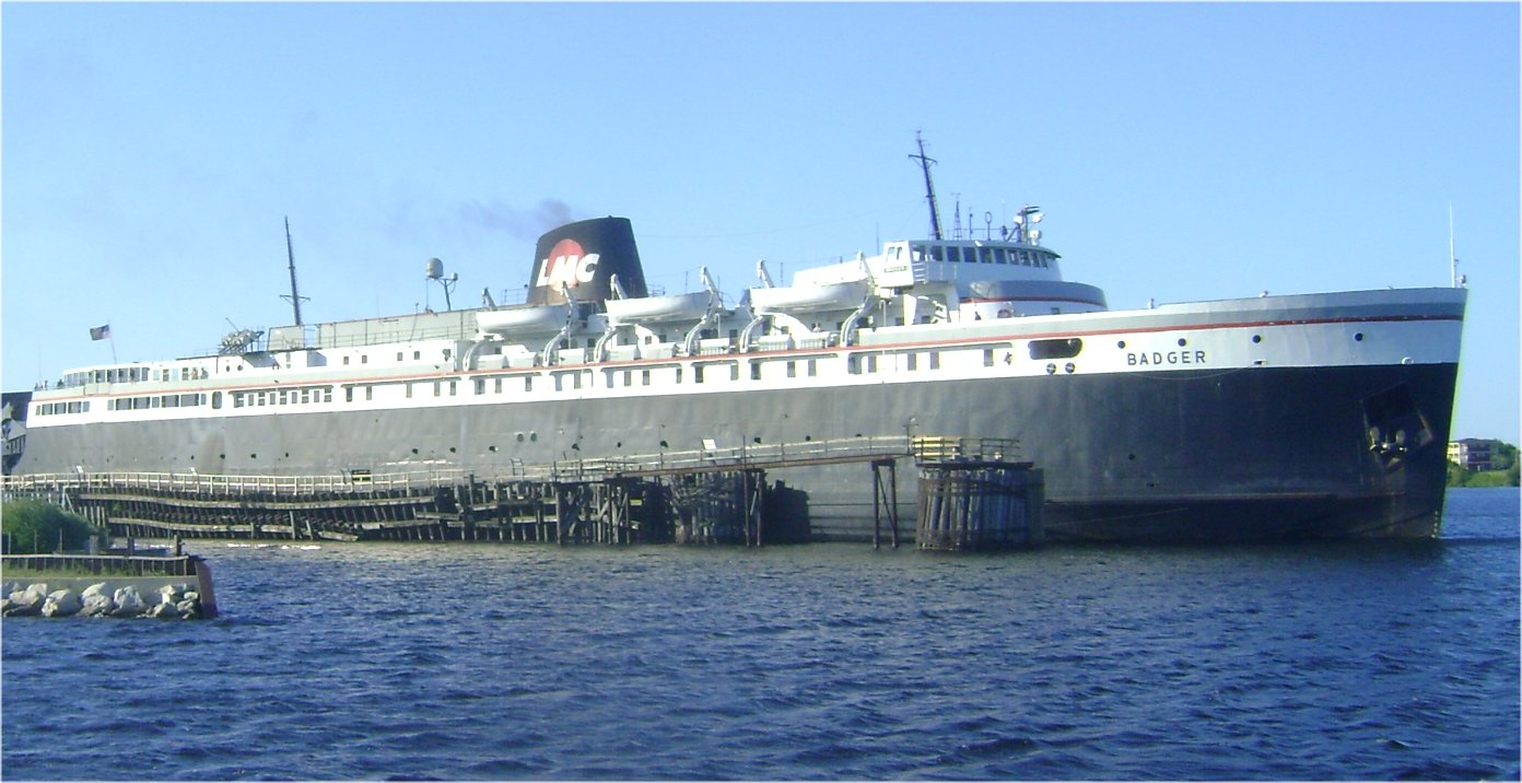 SS Badger (1953) carferry docked in Ludington, Michigan